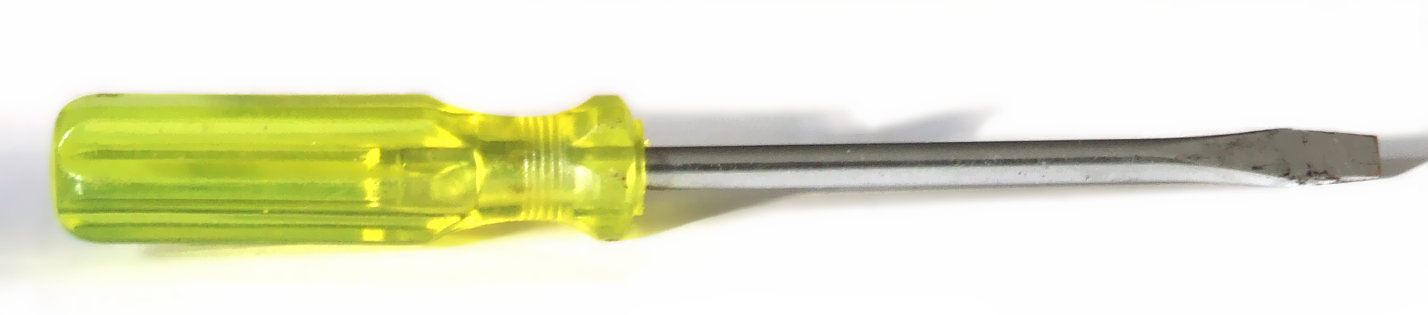 A yellow flathead screwdriver